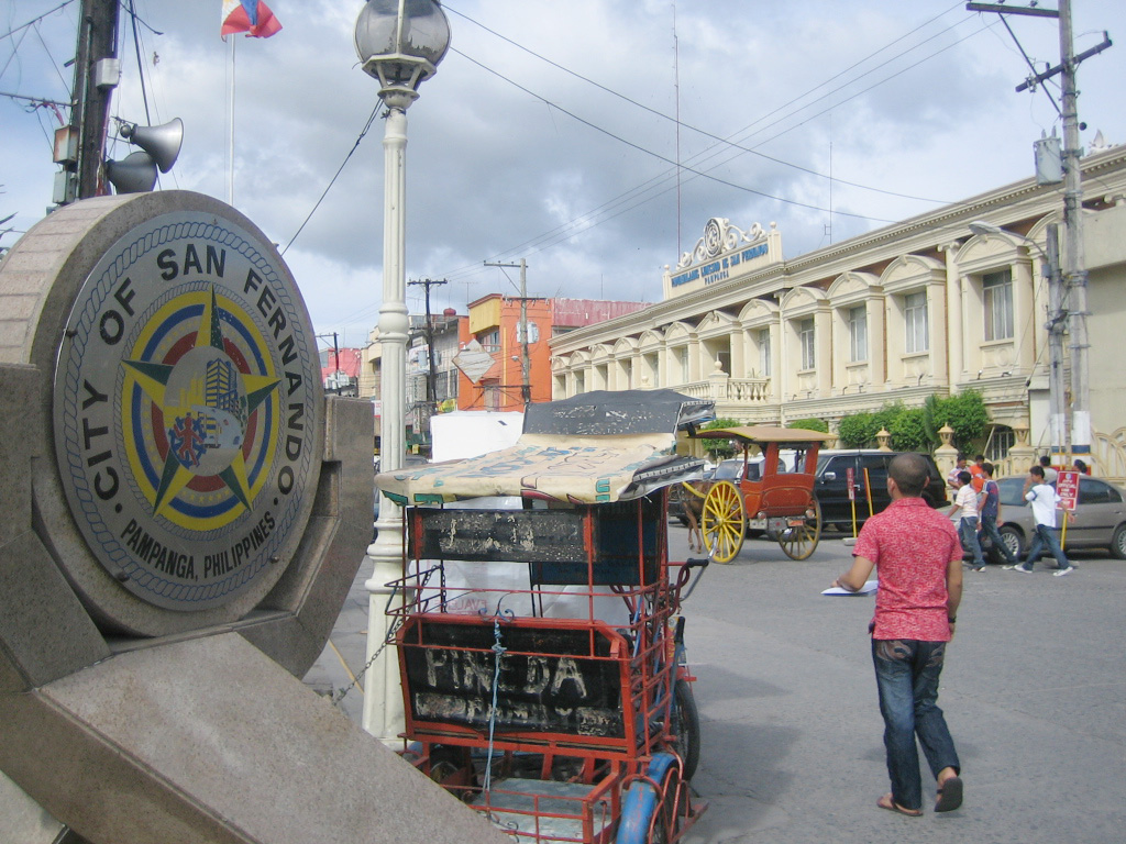 The city hall of San Fernando in the province of Pampanga, on the left is the plaque of the city seal.